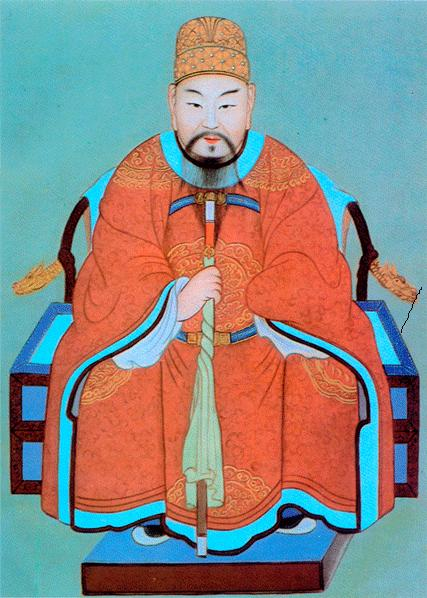 Portrait of Joseon prince Hyoreung(Son of the royal of King Taejong)